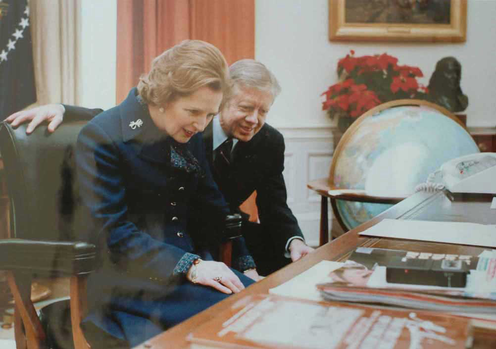 Margaret Thatcher with Jimmy Carter looking at the president's desk, the Resolute Desk.